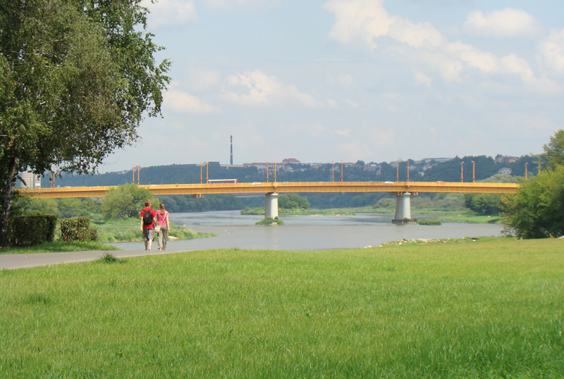 Vilijampolės tiltas in Kaunas, connecting Vilijampolė and Old town districts.